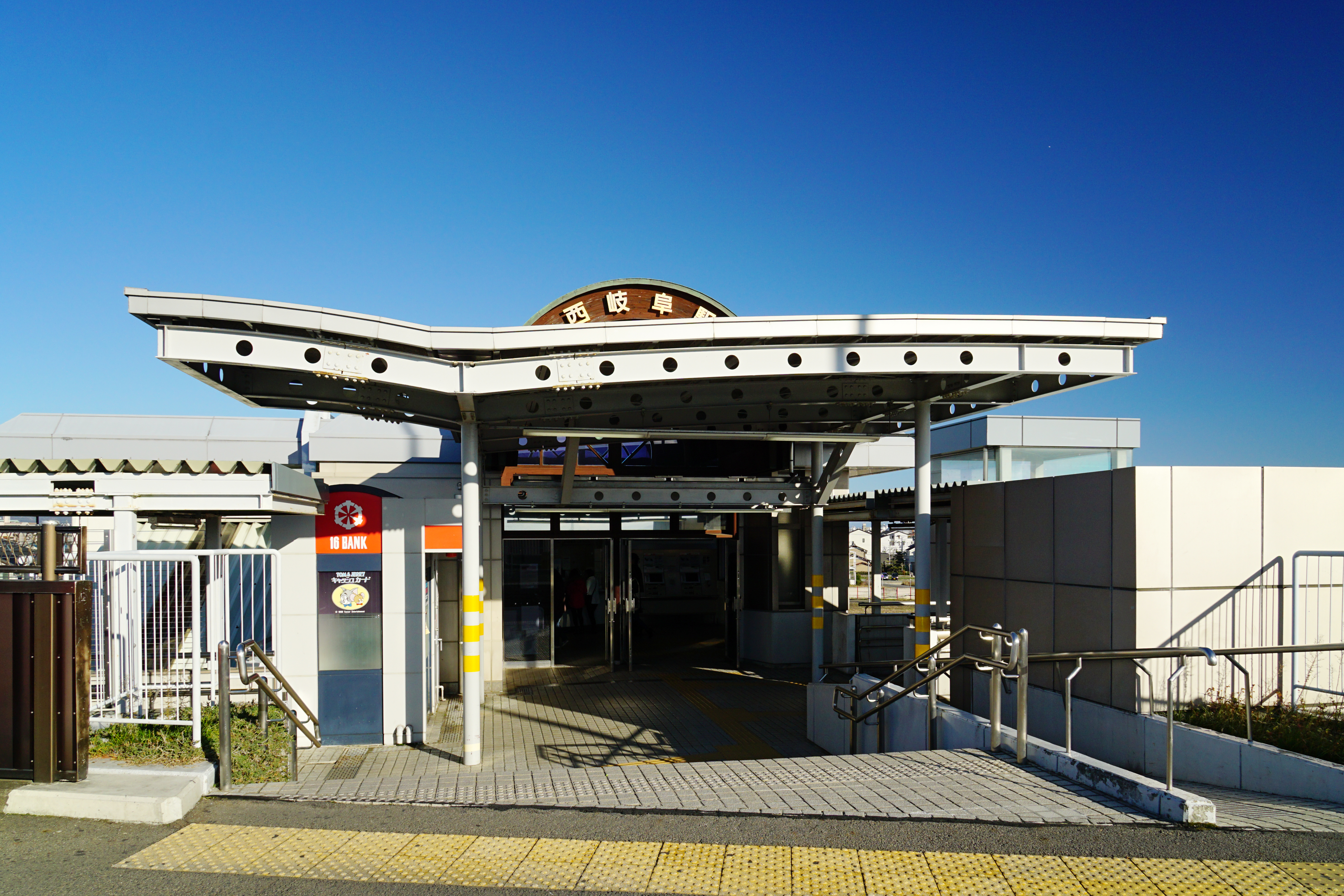 At Nishi-Gifu Station in Gifu, Gifu prefecture, Japan